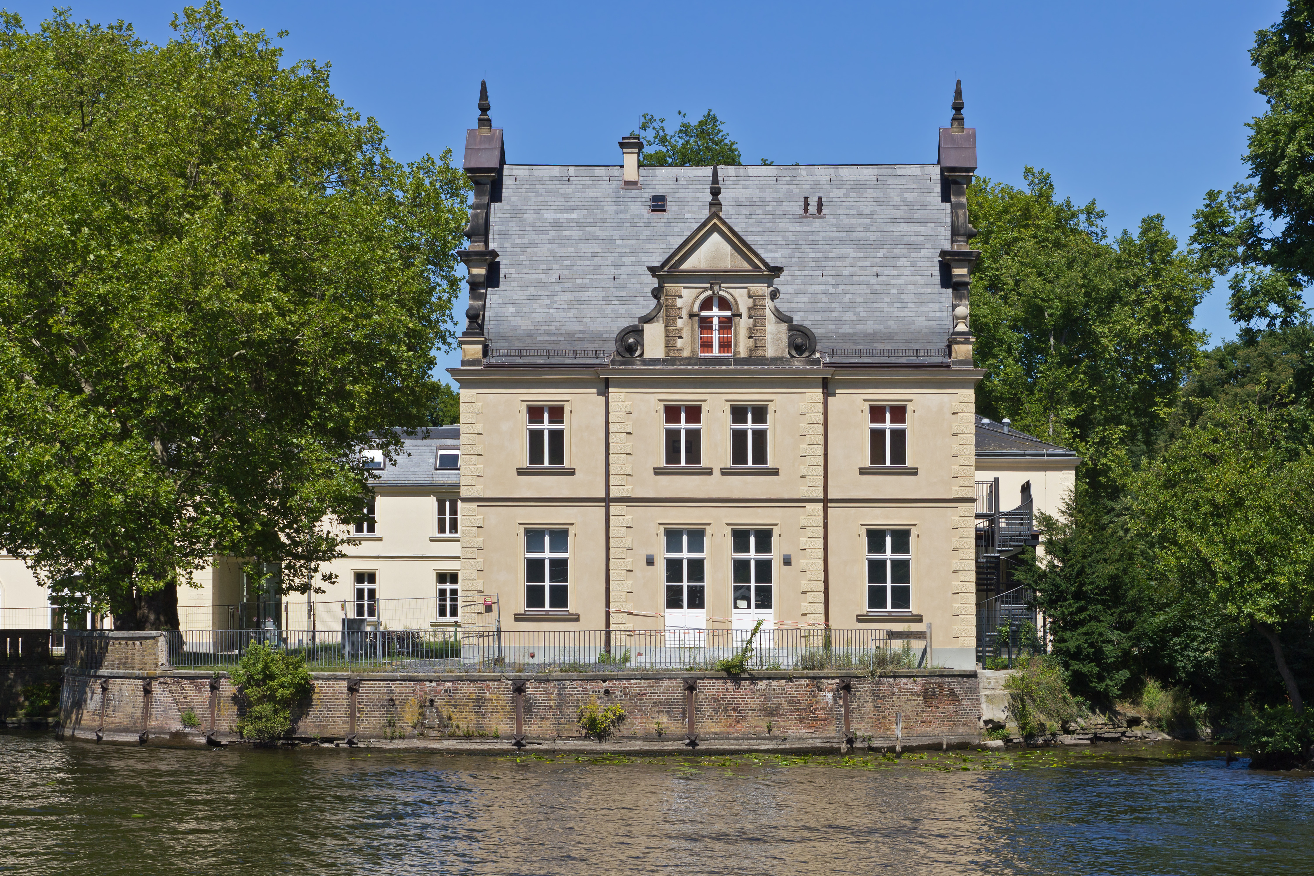 Hunting lodge in Glienicke near Berlin-Wannsee, Germany